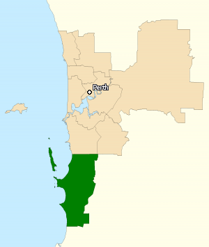 Incorporates or developed using Administrative Boundaries ©PSMA Australia Limited licensed by the Commonwealth of Australia under Creative Commons Attribution 4.0 International licence (CC BY 4.0). Derived from State and Territory Boundaries from the Australian Bureau of Statistics under Creative Commons Attribution 2.5 Australia license (CC BY 2.5 AU)